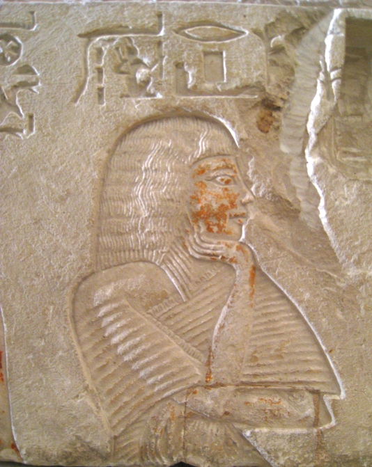 Detail of a relief from a tomb of Saqqara - A high official, a general in chief of the army, is watching the funeral of a noble personality - 18th dynasty of Egypt - Egyptian museum of Berlin